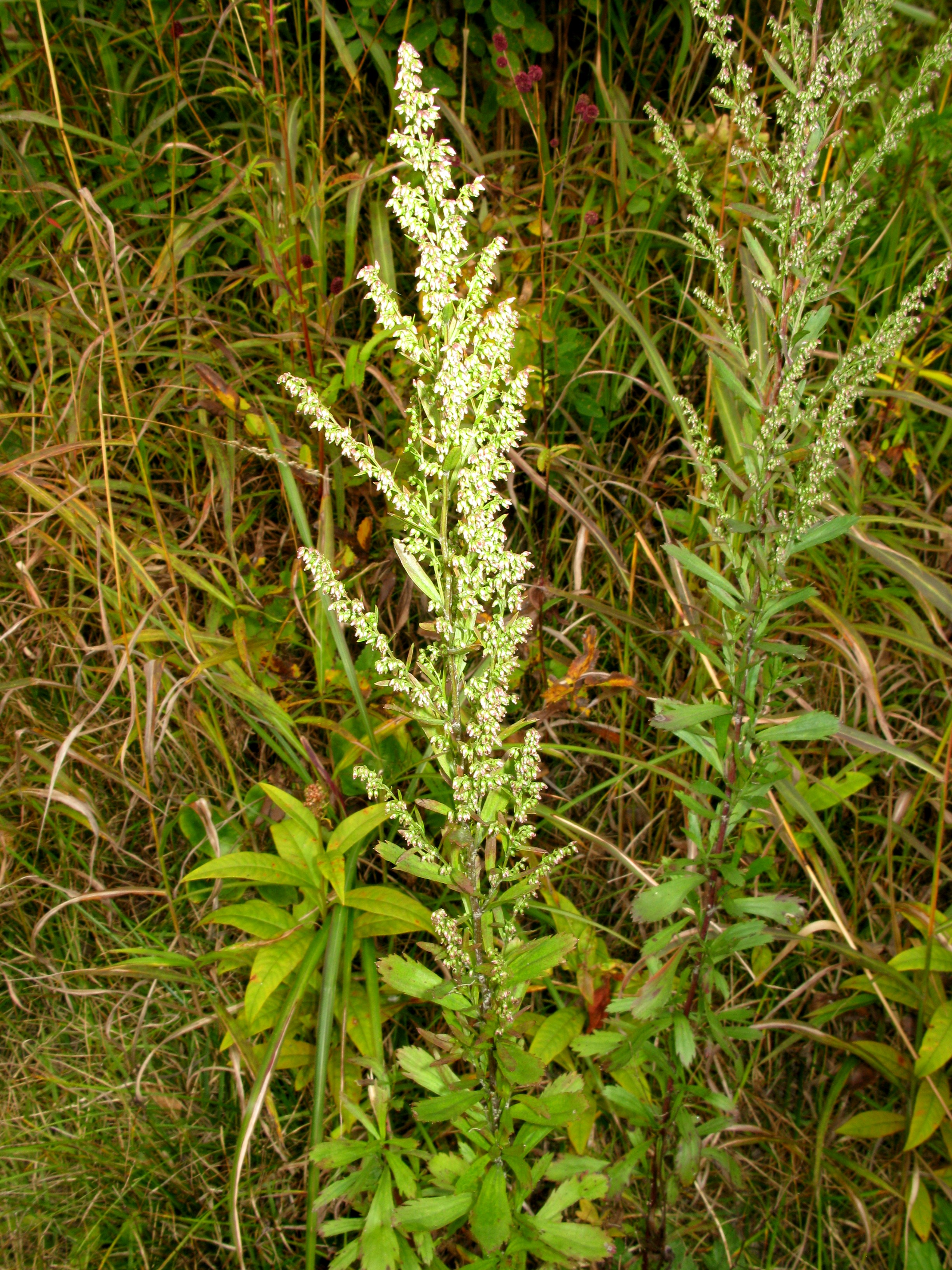 Artemisia japonica, Aizu area, Fukushima pref., Japan